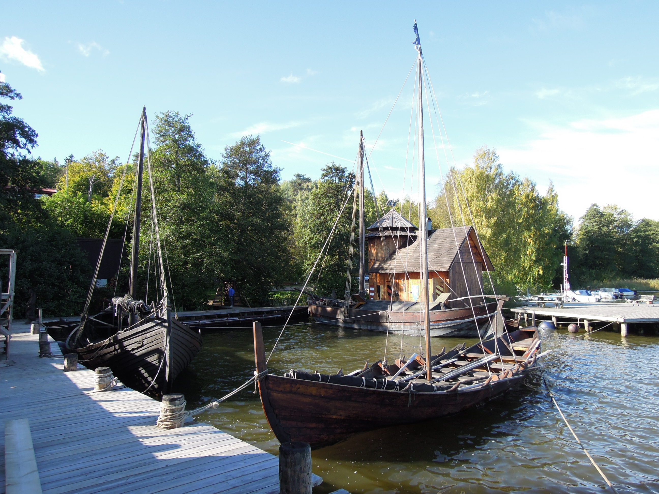 Replicas of medieval Viking ships at Frösåkers brygga near Västerås, Sweden